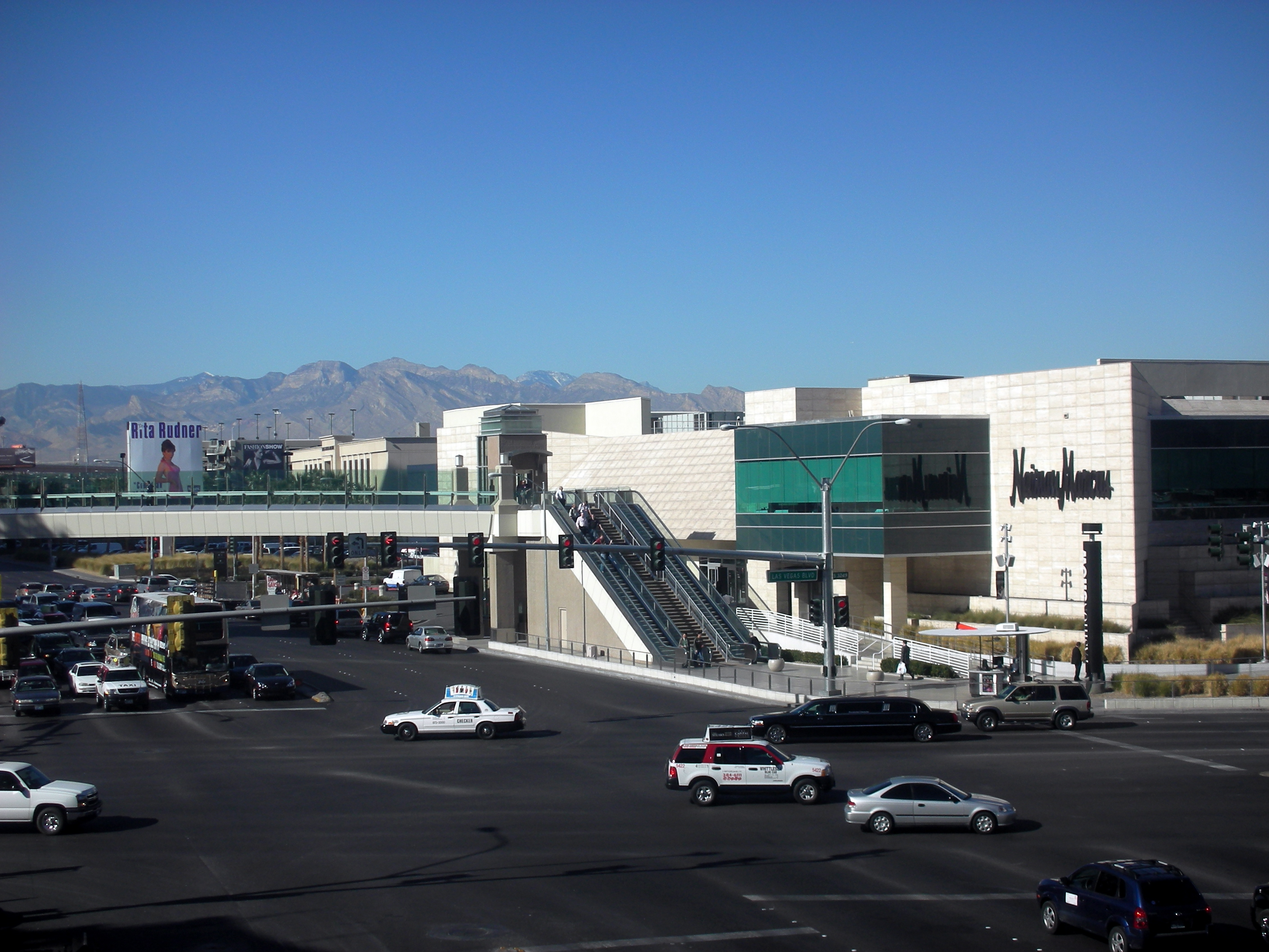 Exterior of a Neiman Marcus store in the Fashion Show Mall in Las Vegas, Nevada. The store and mall are located on the Las Vegas Strip (visible in the foreground) at Spring Mountain Road.